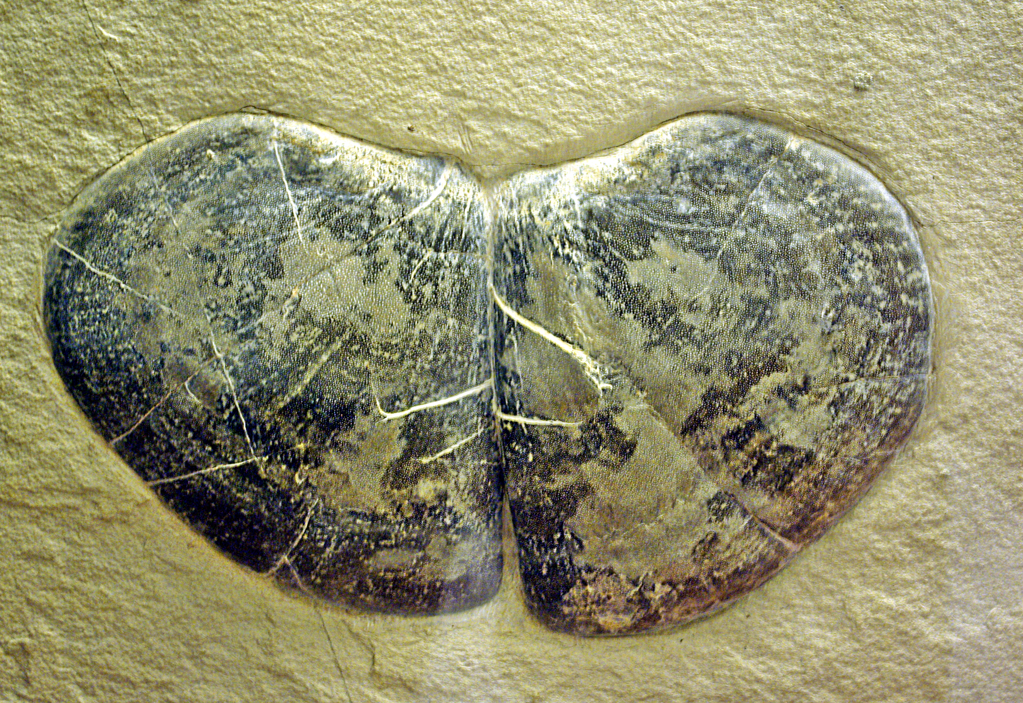 Aptychus